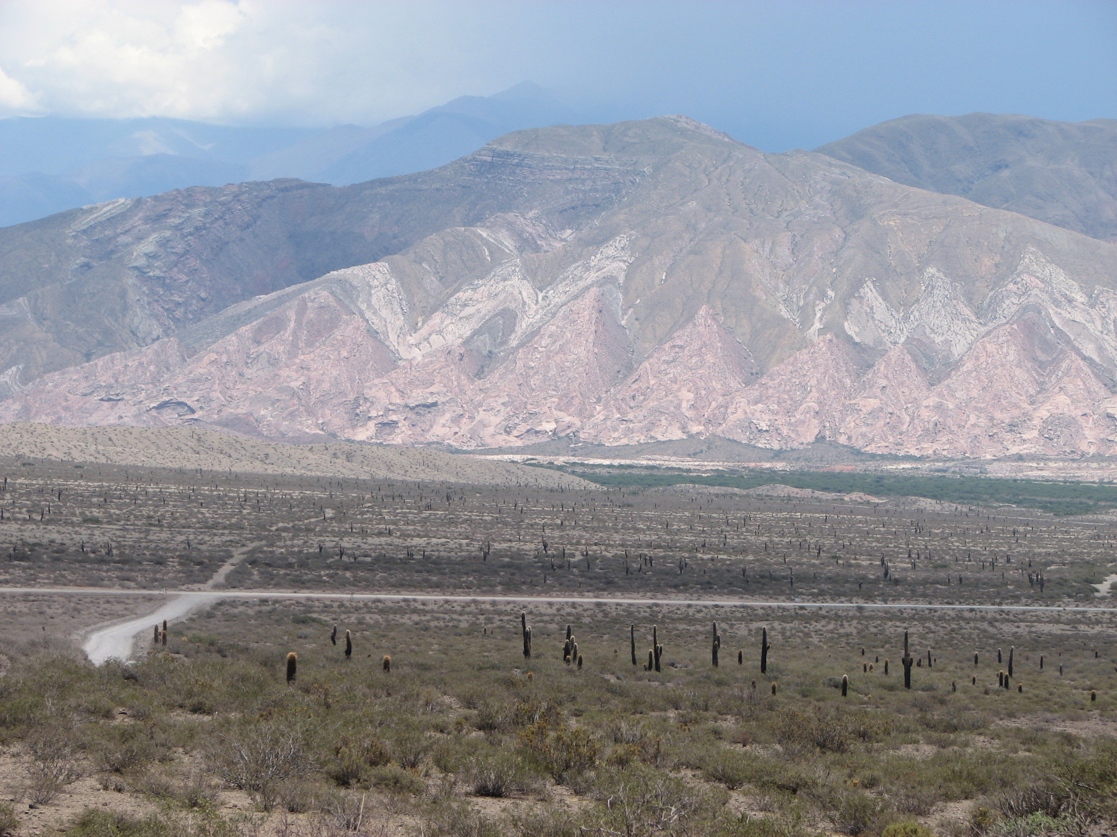 Los Cardones National Park, Salta (Argentina).